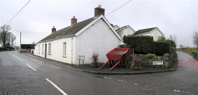 Ballyeaston Village The location is the junction of the Trenchill Road and the Ballynashee Road